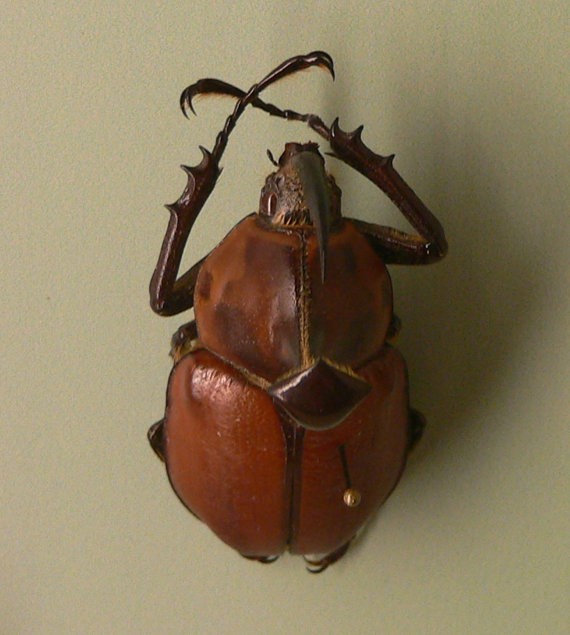 Pictures taken by myself at the Audubon Insectarium